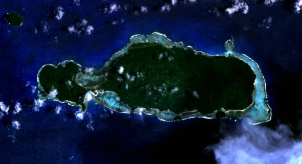 (Rotuma - NASA NLT Landsat 7 (Visible Color) Satellite Image cropped by (WT-shared) Roundtheworld 12:45, 20 September 2009 (EDT).